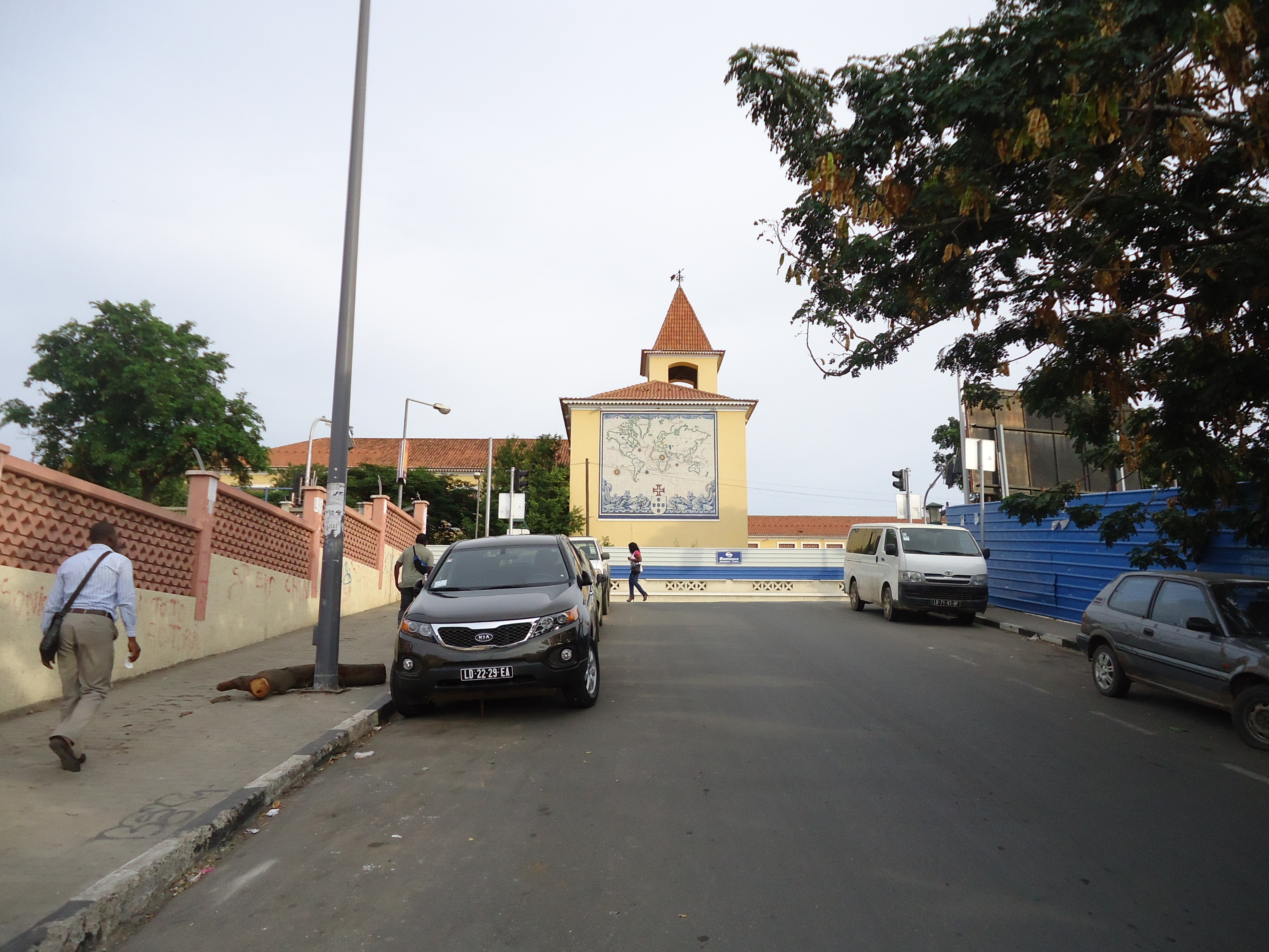 Streets and buildings of Luanda. Photo by Fabio Vanin, Luanda, 2013.